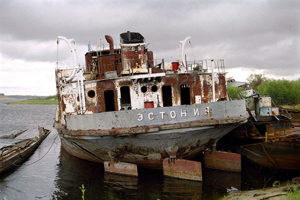 Estoniya Project 11 Bolshaya Volga